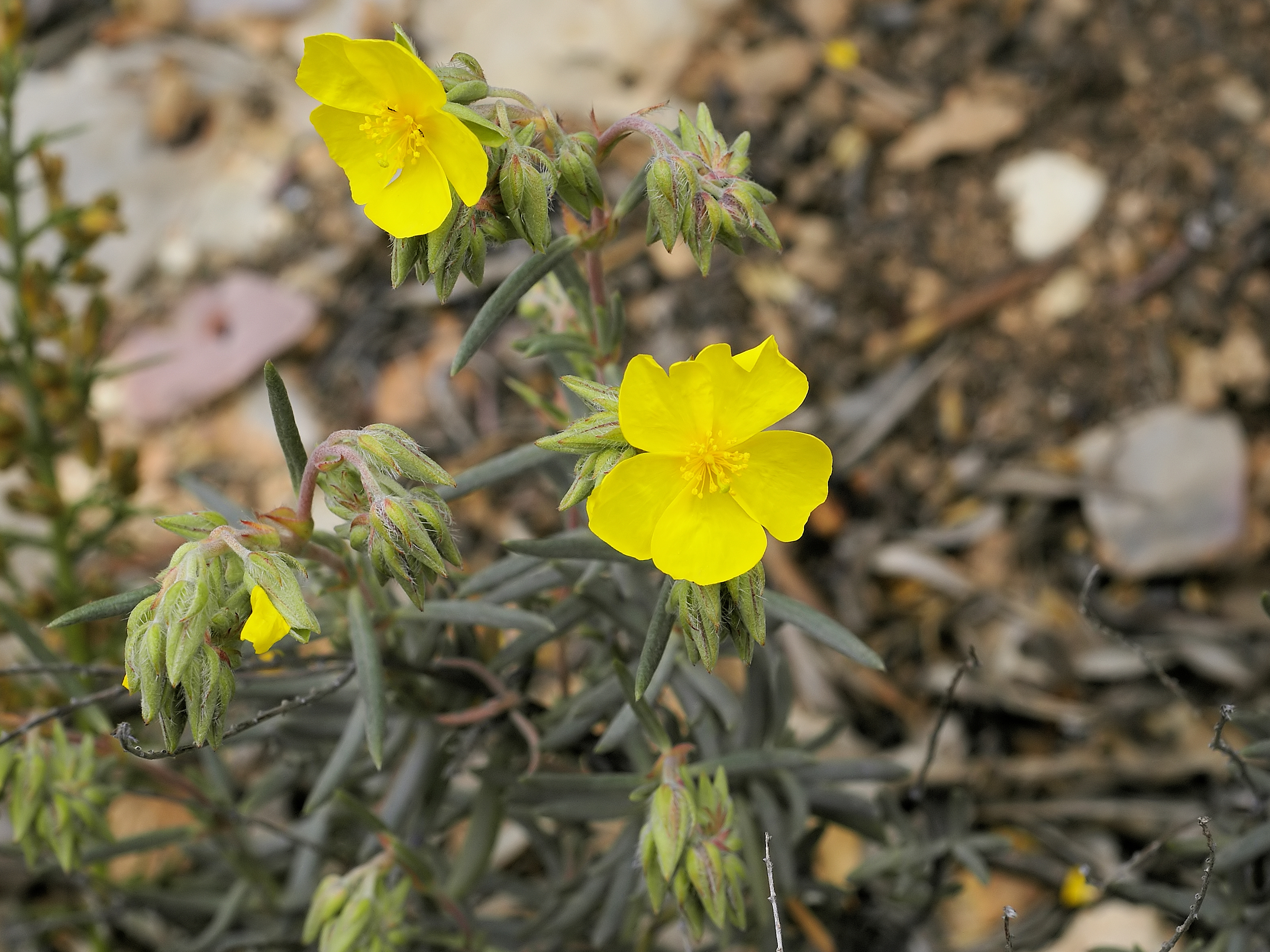 Lavender-leaved sun-rose near el Perelló, Catalonia, Spain